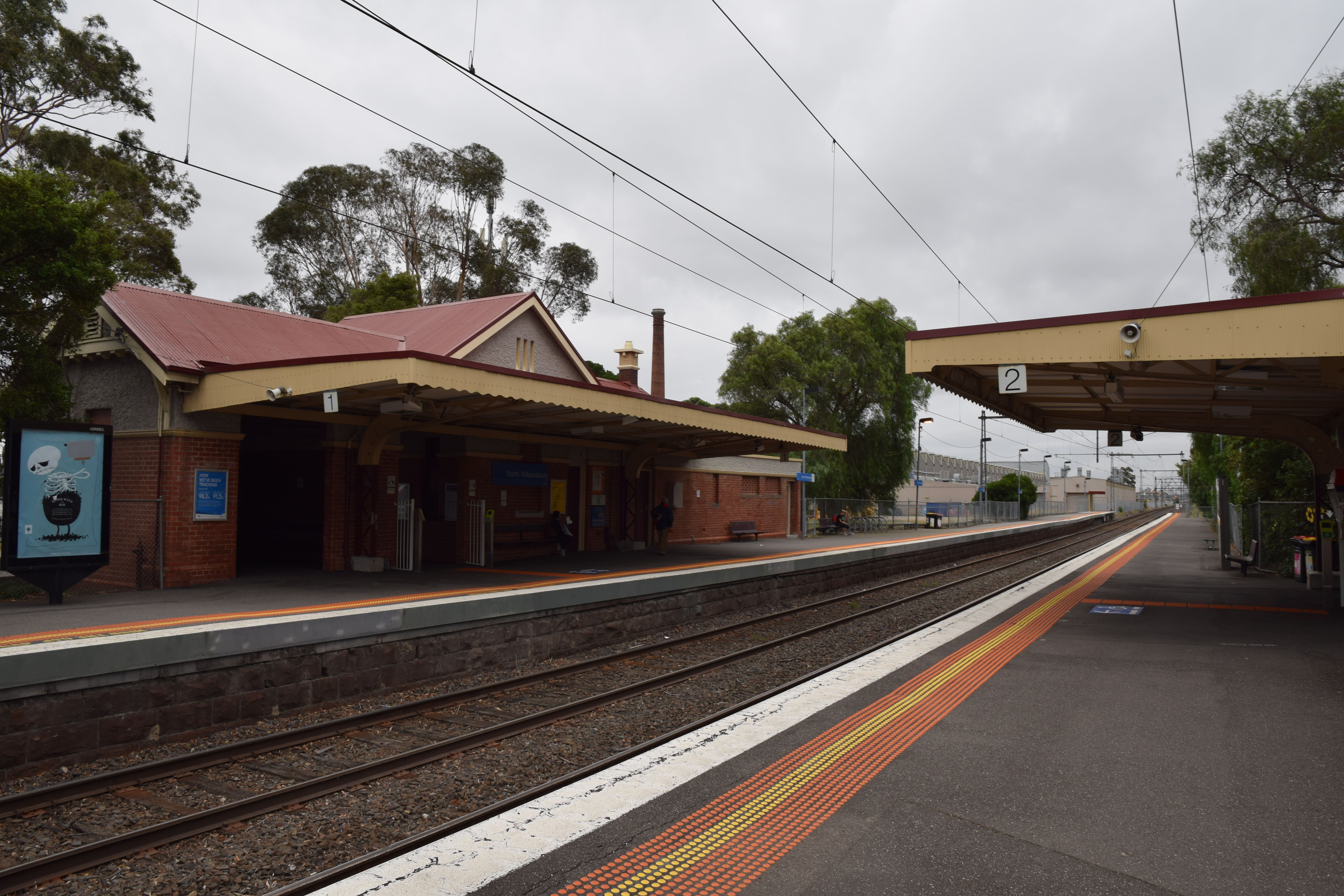 Newport Station, Victoria, 2 April 2016